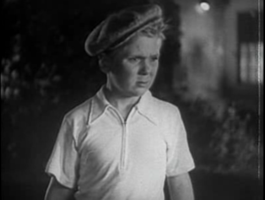 Screenshot from the 1934 film Peck's Bad Boy.